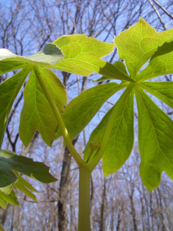 Mayapple (Podophyllum peltatum) found on the Al Sabo Preserve in Portage, MI.